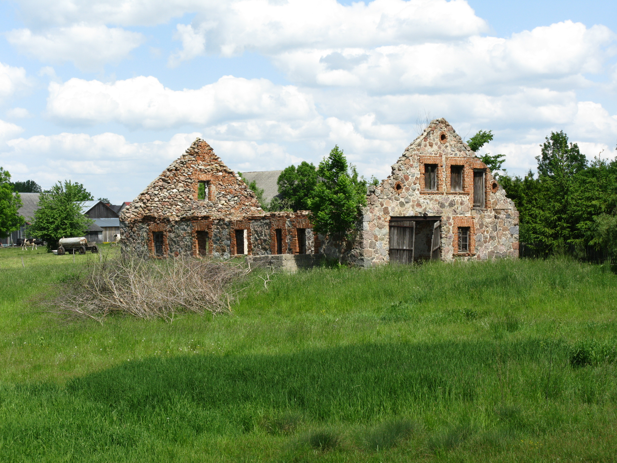 Ruined mikveh in Boćki (Podlaskie, Poland).